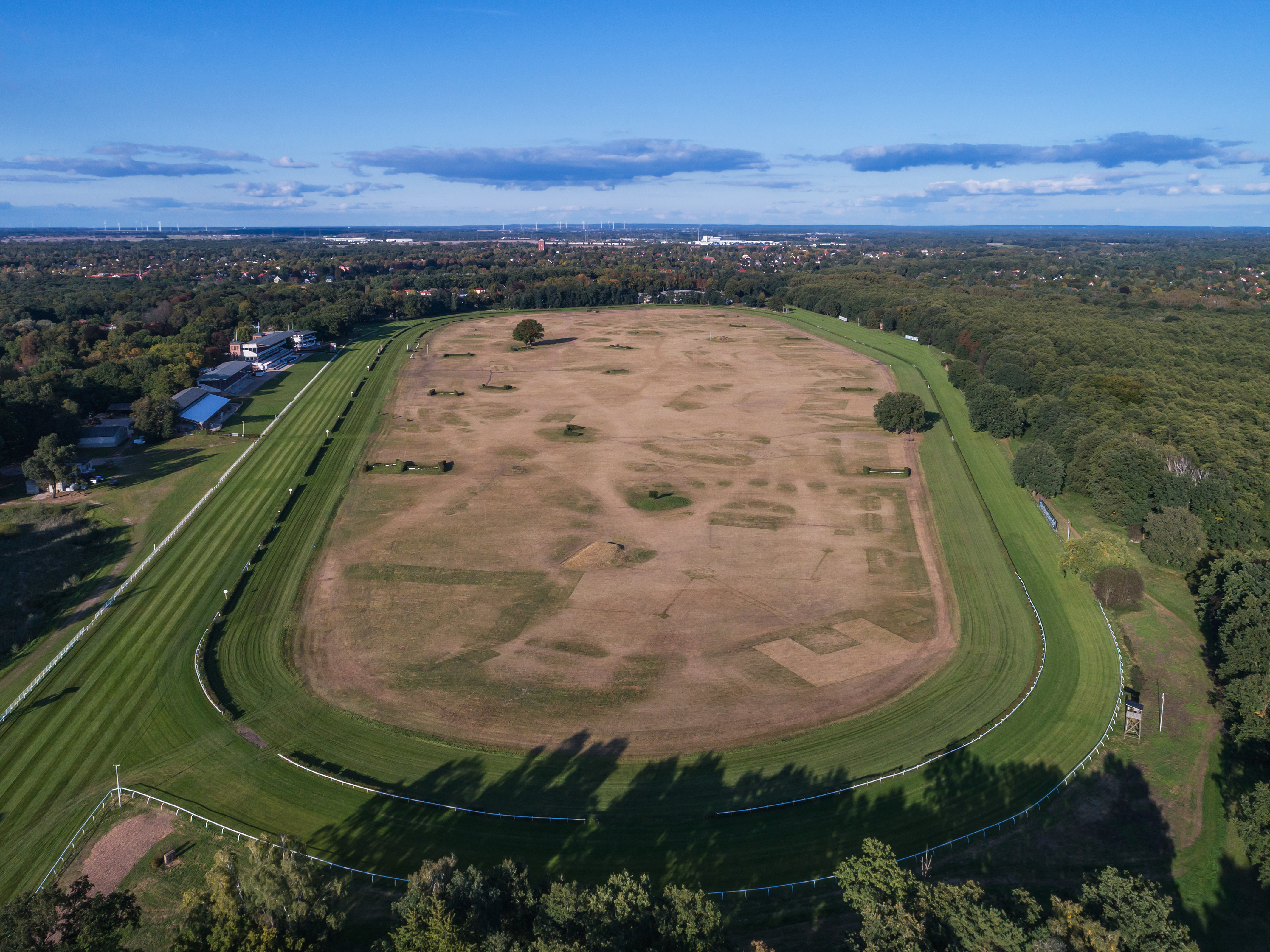 Hoppegarten Racecourse near Berlin (Germany)